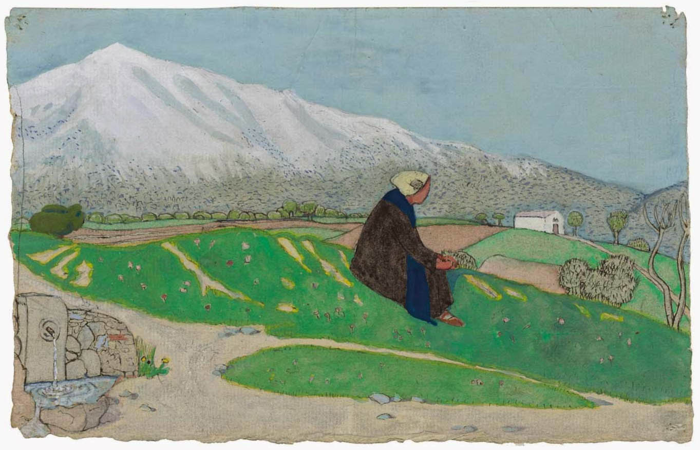 Nikos Stefanou Dragoumis, Lydia and the mountin of Penteli, 1913, pencil and gouache on paper, private collection